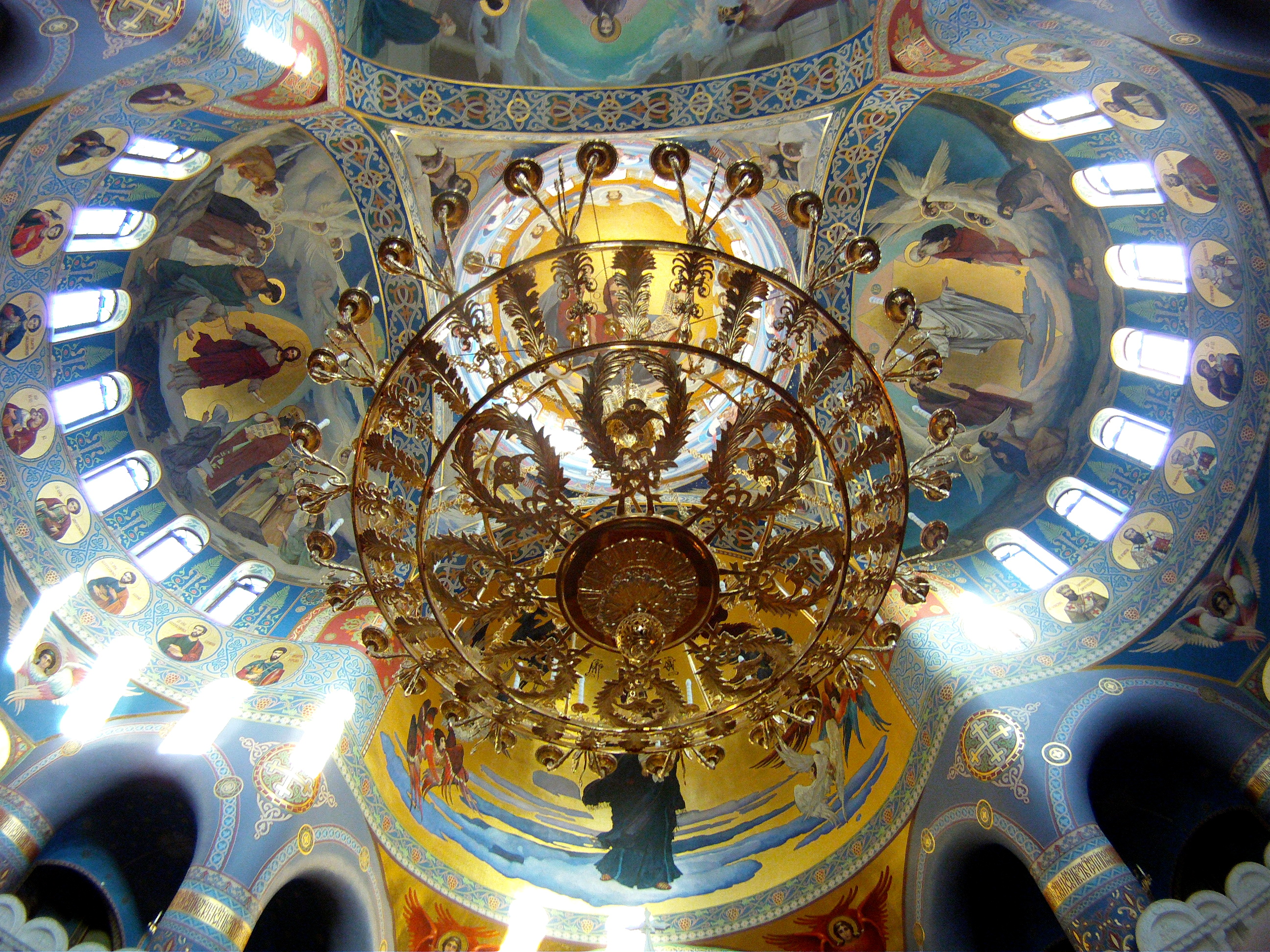 The Holy Face of Christ the Savior Church (Sochi, Russia)